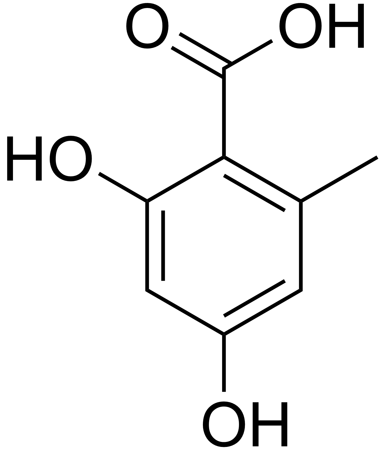 chemical structure of Orsellinic_acid